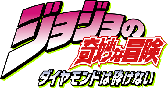 Logo for the third season of the anime adaptation of Hirohiko Araki's comic JoJo's Bizarre Adventure. An updated variant with a green drop shadow.